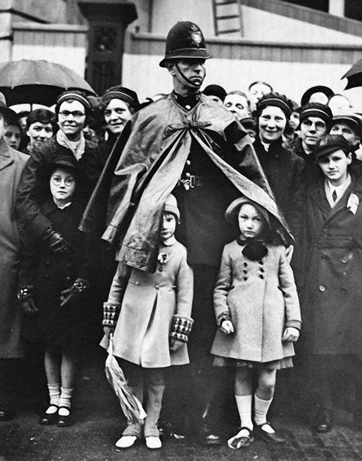 This is Monday 10th May 1937 and a full Coronation procession rehearsal is taking place on the streets of London just two days before the Coronation of George VI on Wednesday 12th May. The Coronation date was originally set for the Coronation of Edward VIII but when he abdicated in December 1936 it was decided to let the date stand for the Coronation of George VI. The Coronation was the first major outside broadcast undertaken by BBC Television.